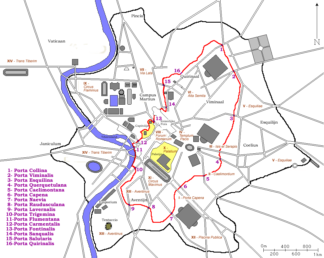 Servian (Republican) wall (red) on a map of ancient Rome around 300 AD